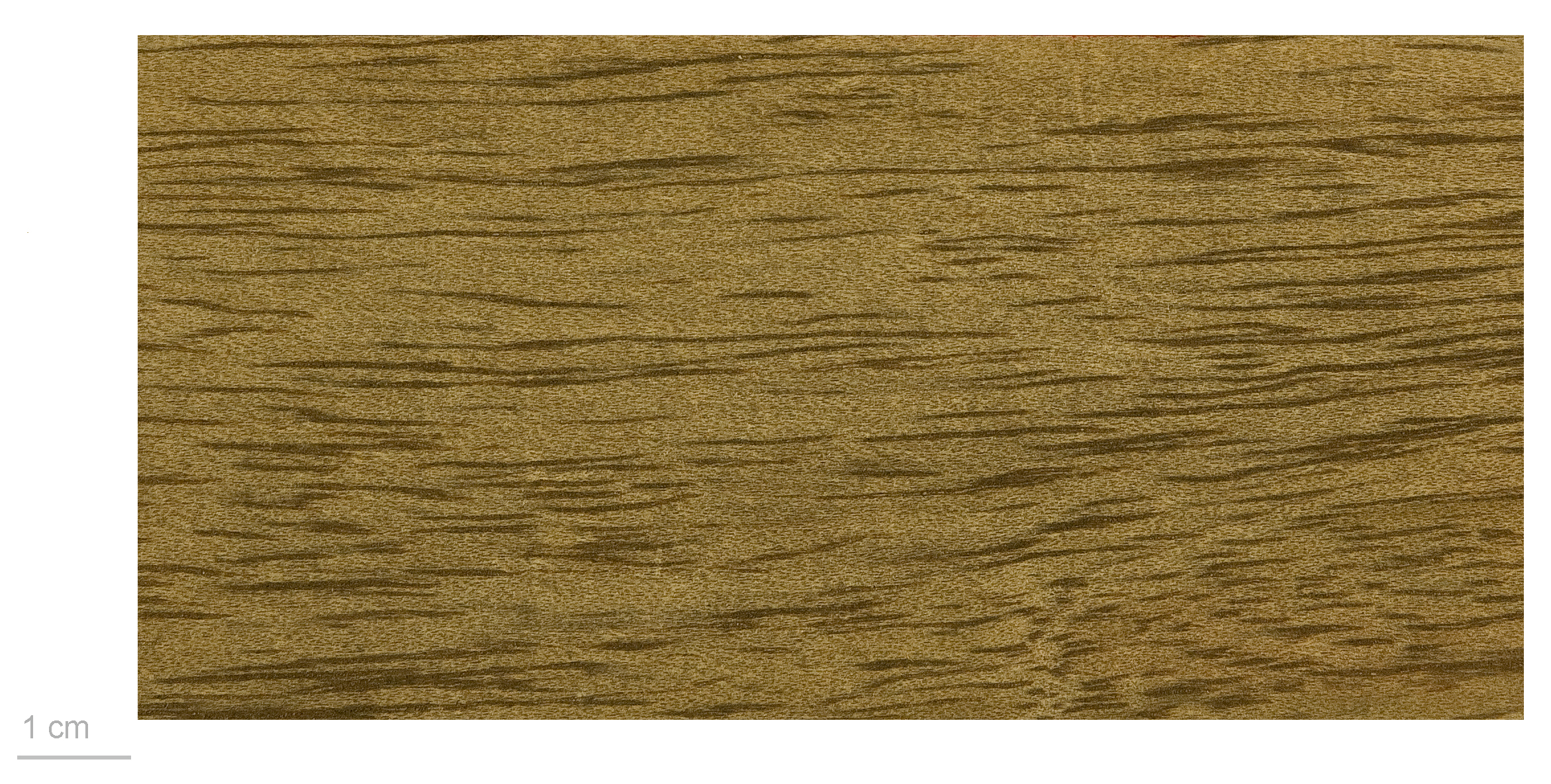 Hernandia cordigera, wood